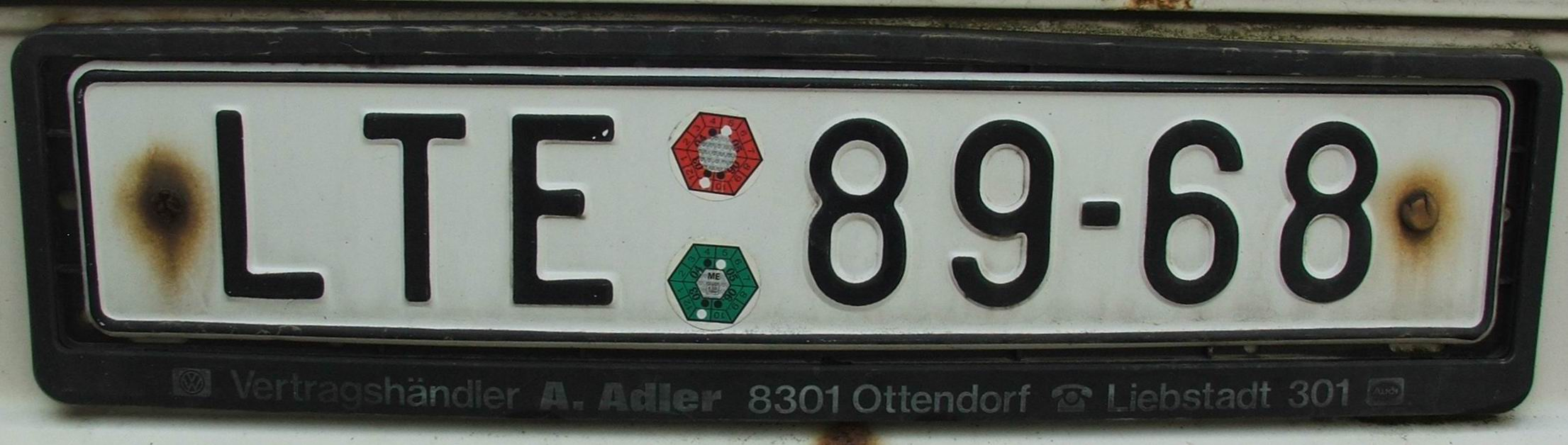 Registration plate from Czechoslovakia 1986-1994, LT = Litoměřice District